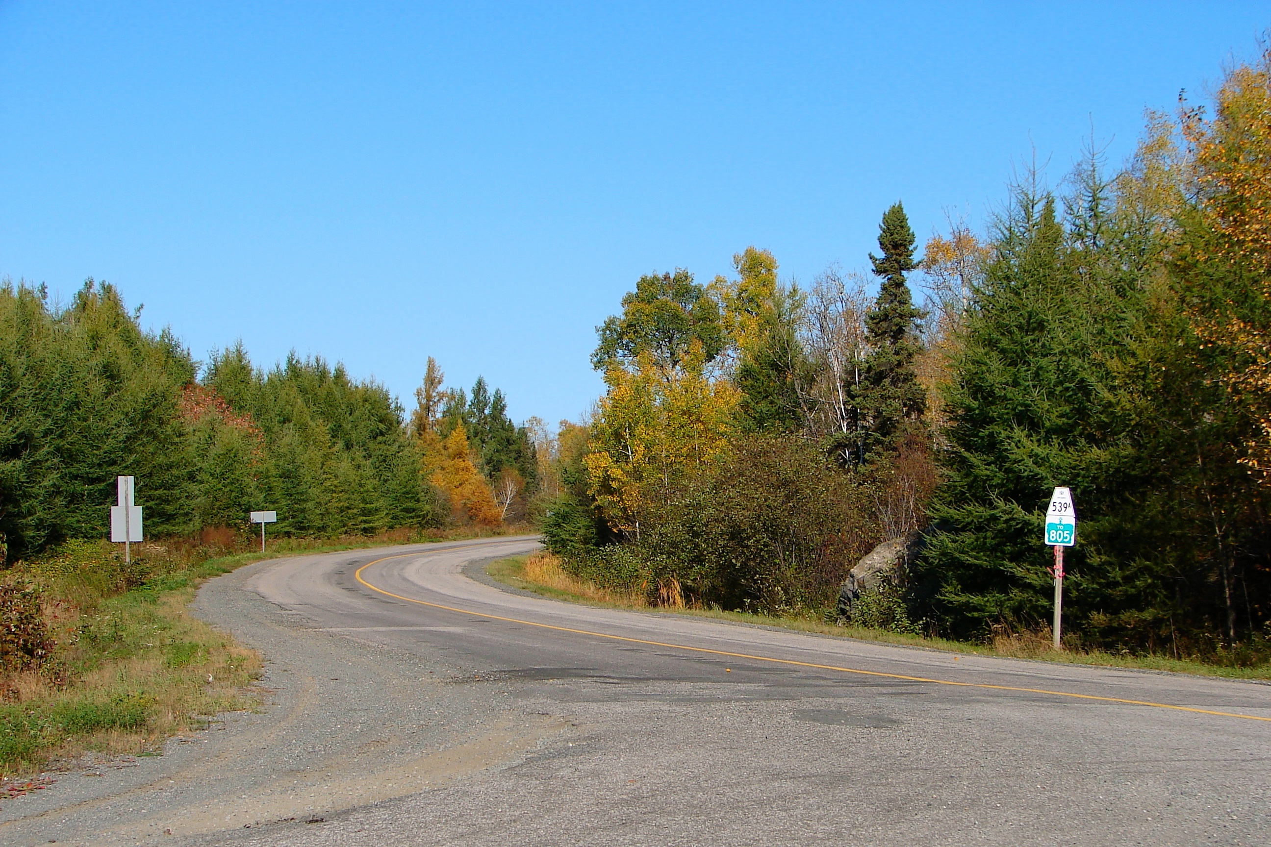 Ontario Secondary Highway 539A near River Valley, Ontario, Canada